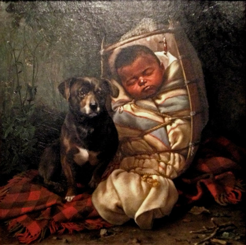 National Thorn (No. 1) by Grace Hudson, 1891, oil on canvas, 30 x 30 in, Grace Hudson Museum. This is the first of the artist's 684 sequentially numbered paintings.